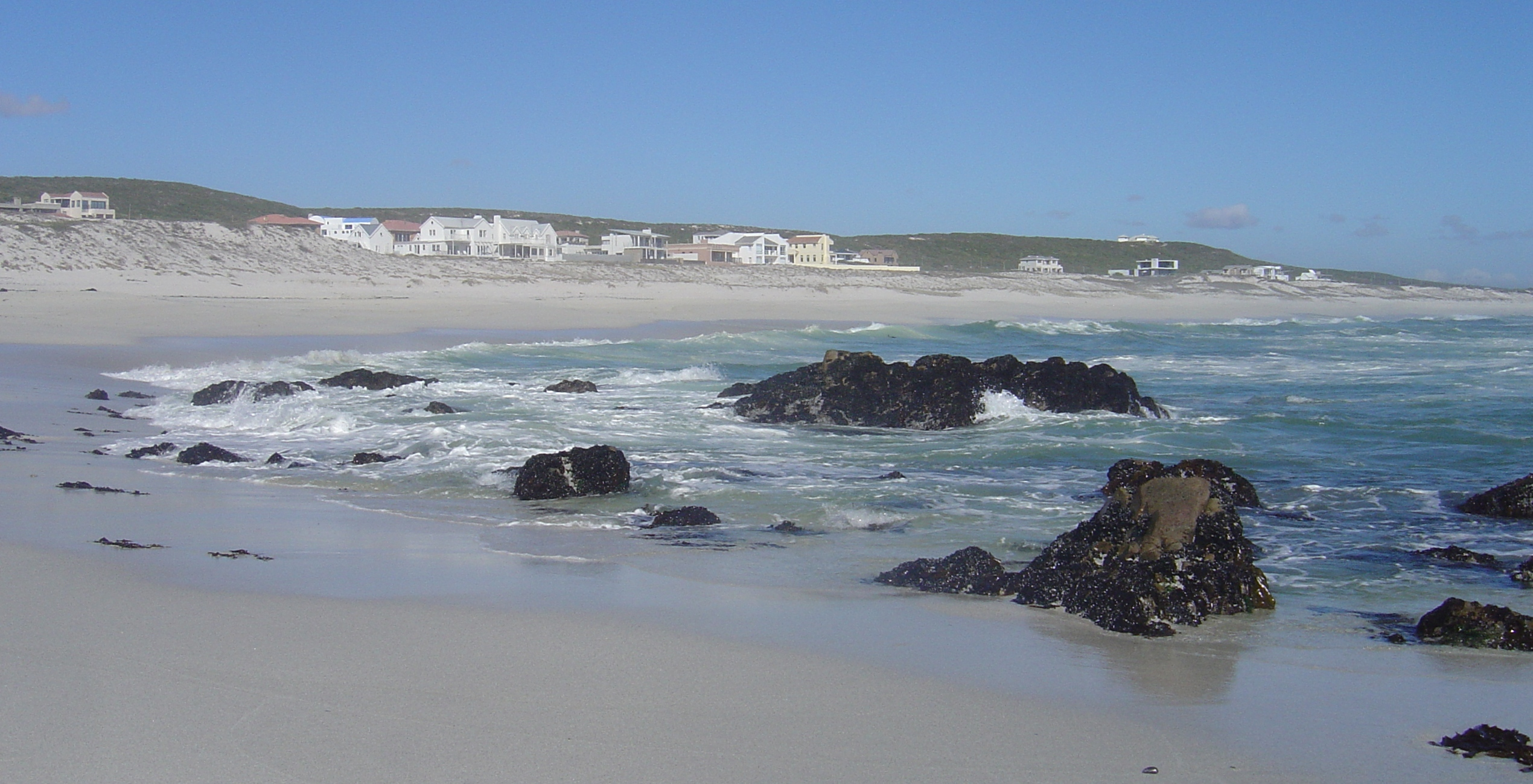 Pearl Bay in Yzerfontein, South Africa